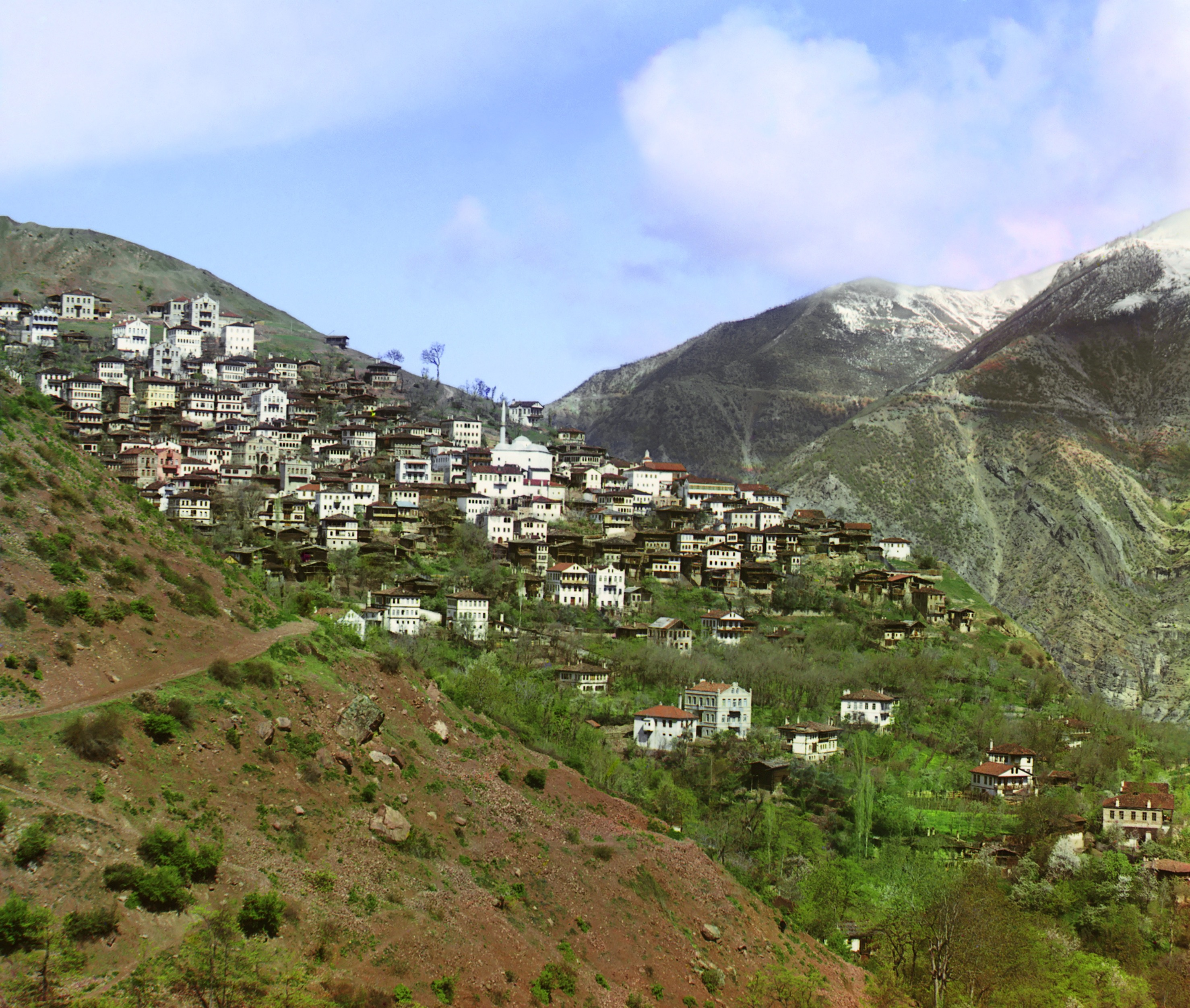 Original Description: General view of Artvin from the small town of Svet.